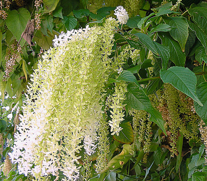 Native to northwestern South America. Botanical Gardens of Bogota. In context at